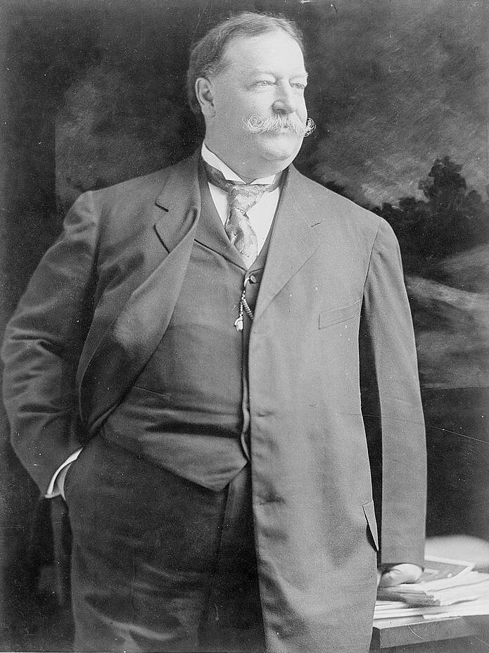 William Howard Taft William Howard Taft, half-length portrait, standing, facing right